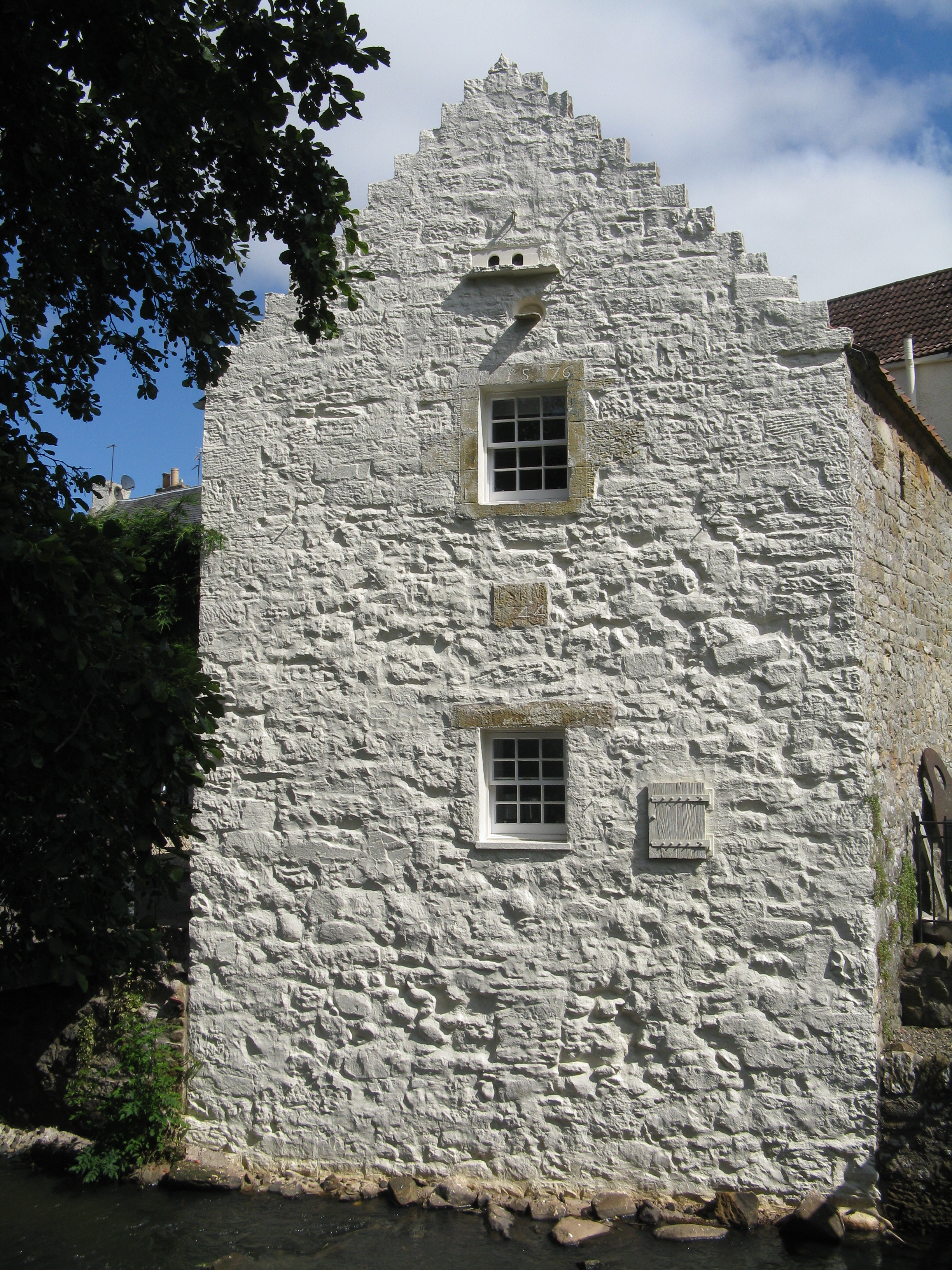 Brand's Hotel, Ceres